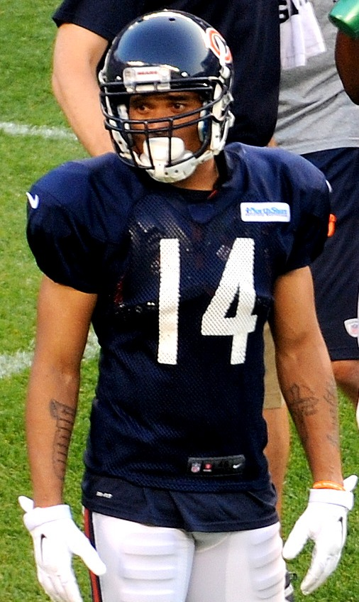 Wide receiver, Eric Weems, at Chicago Bears training camp in 2014.